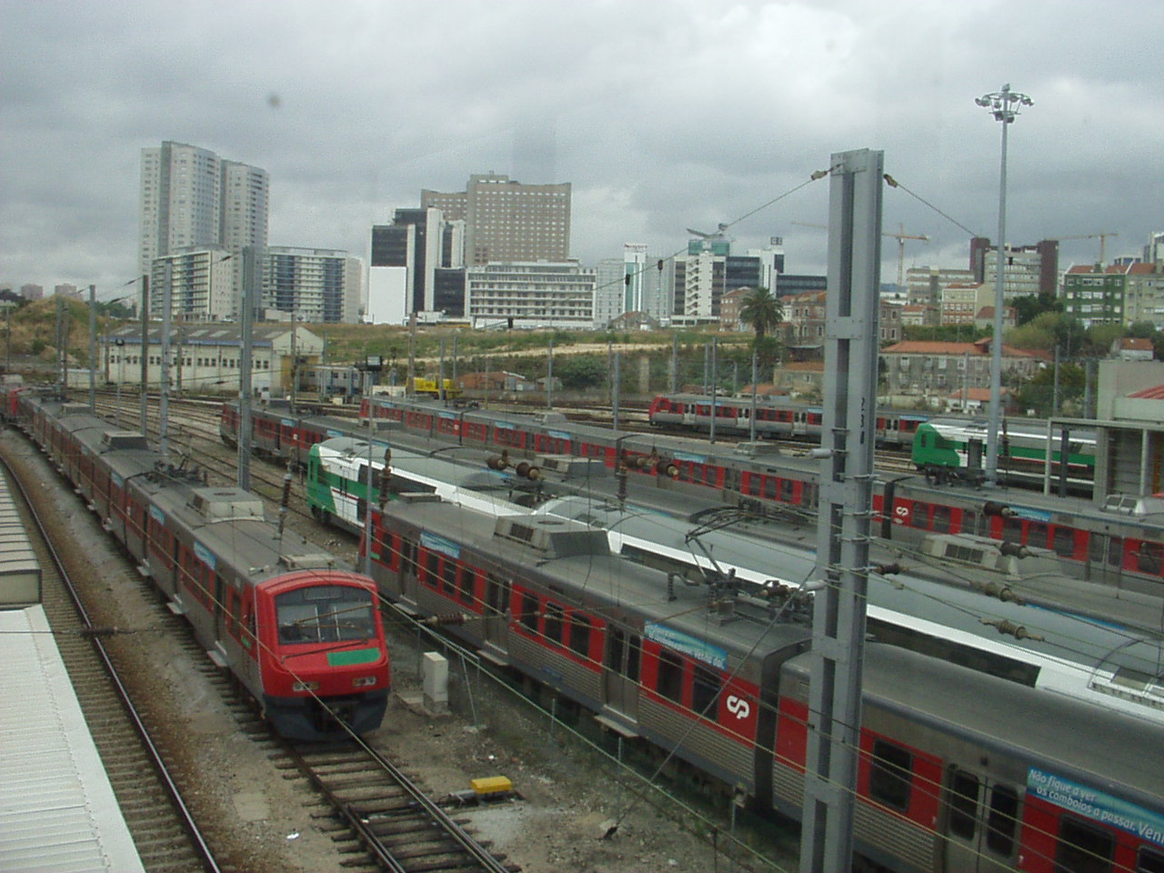 Campolide EMU yard in Lisbon. (EMU means electric multiple unit.)